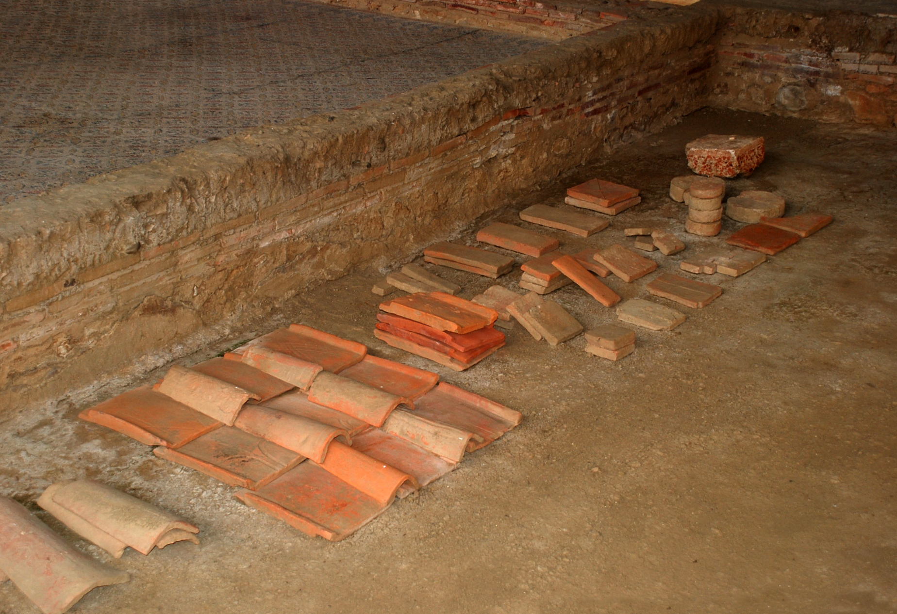 Roman Villa of La Olmeda in Pedrosa de la Vega (Palencia, Castile and León).